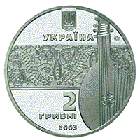 Coin of Ukraine